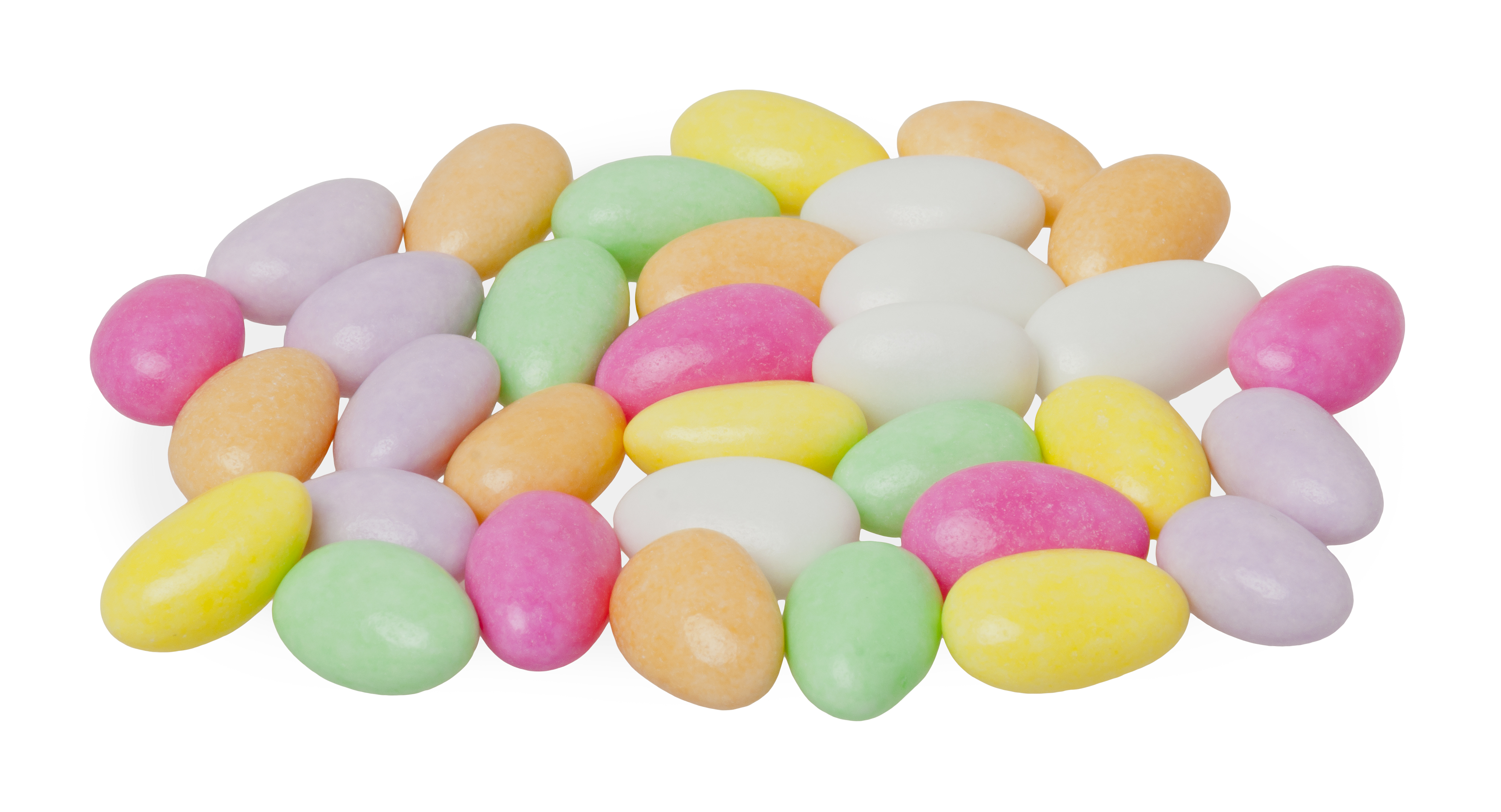 A pile of Jordan Almonds, which are almonds in a sugar coating in pastel colors. These specific Jordan Almonds were manufactured by La Pone.